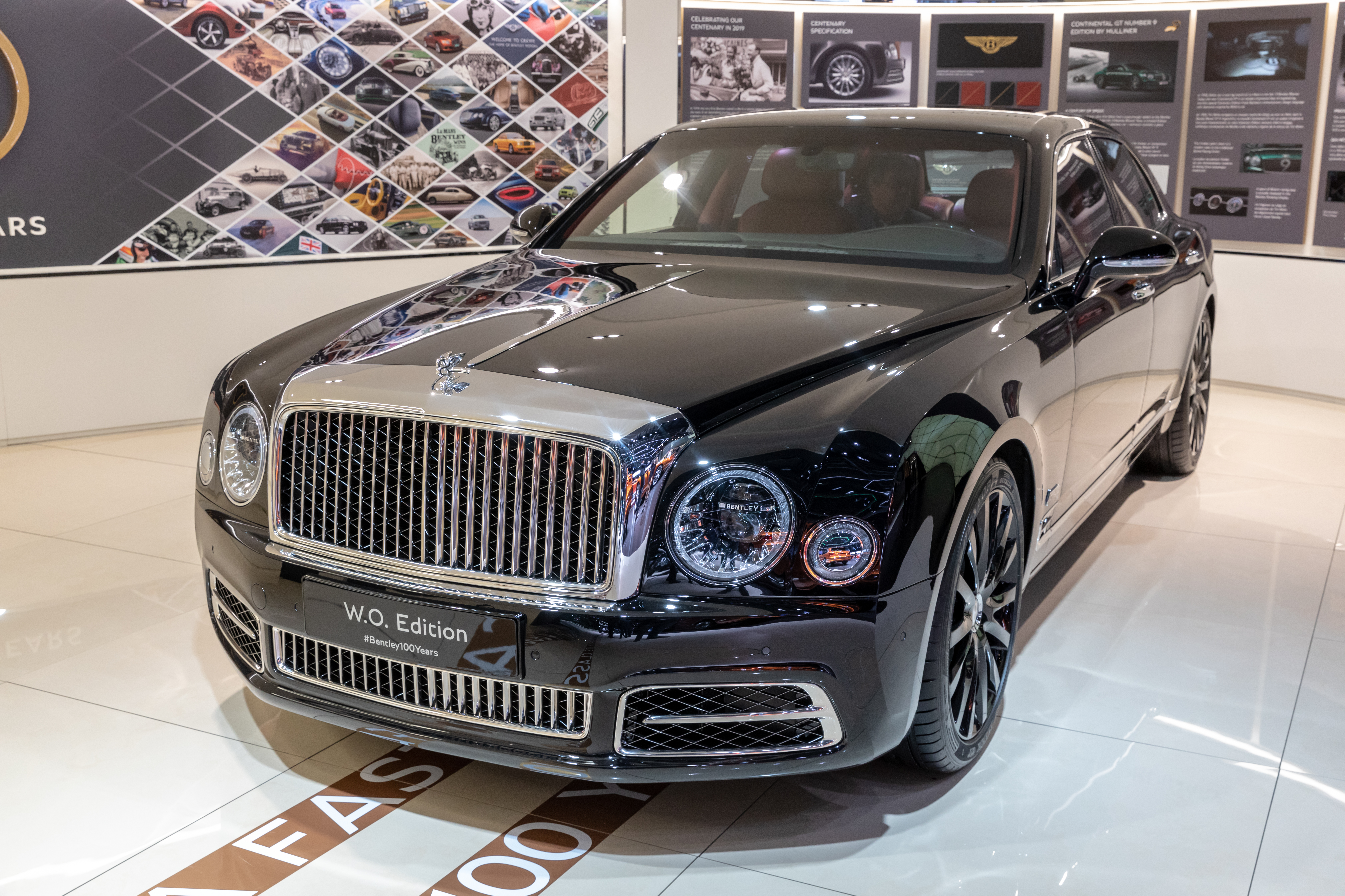 Bentley Mulsanne, Geneva International Motor Show 2019, Le Grand-Saconnex